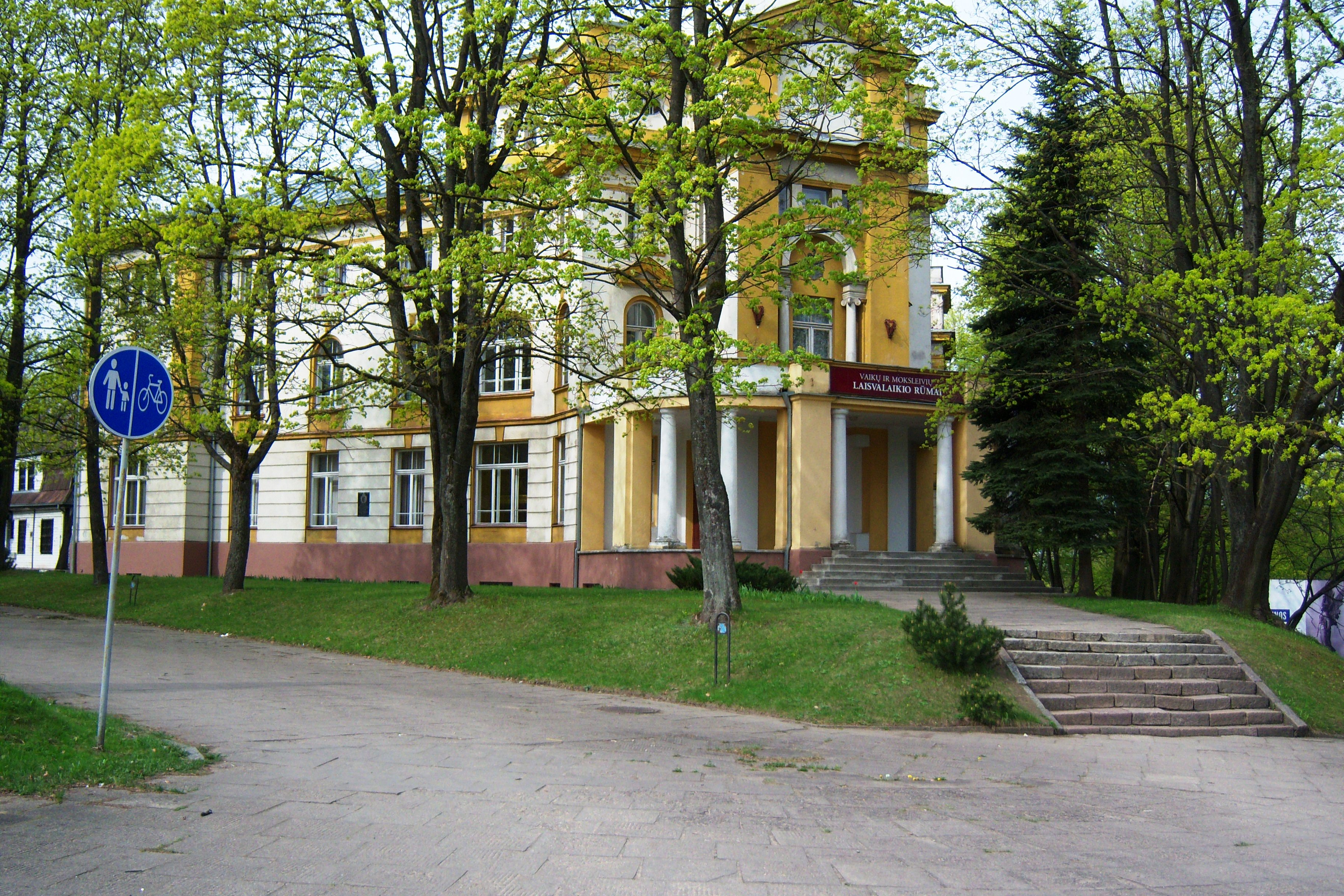 Kaunas Chamber of Children and Schoolchildren Leisure, Lithuania